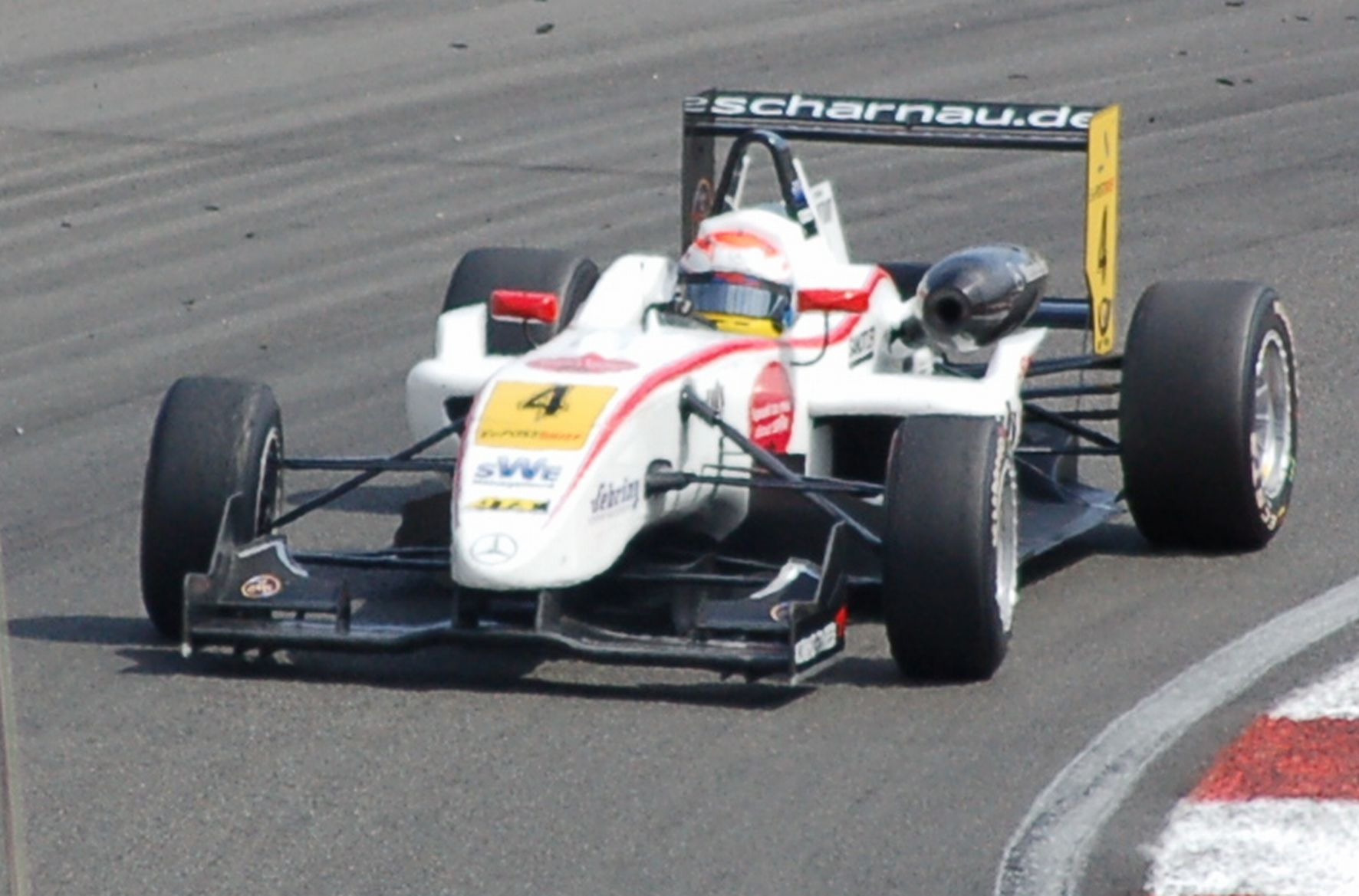 Felix Rosenqvist at Zandvoort 2011